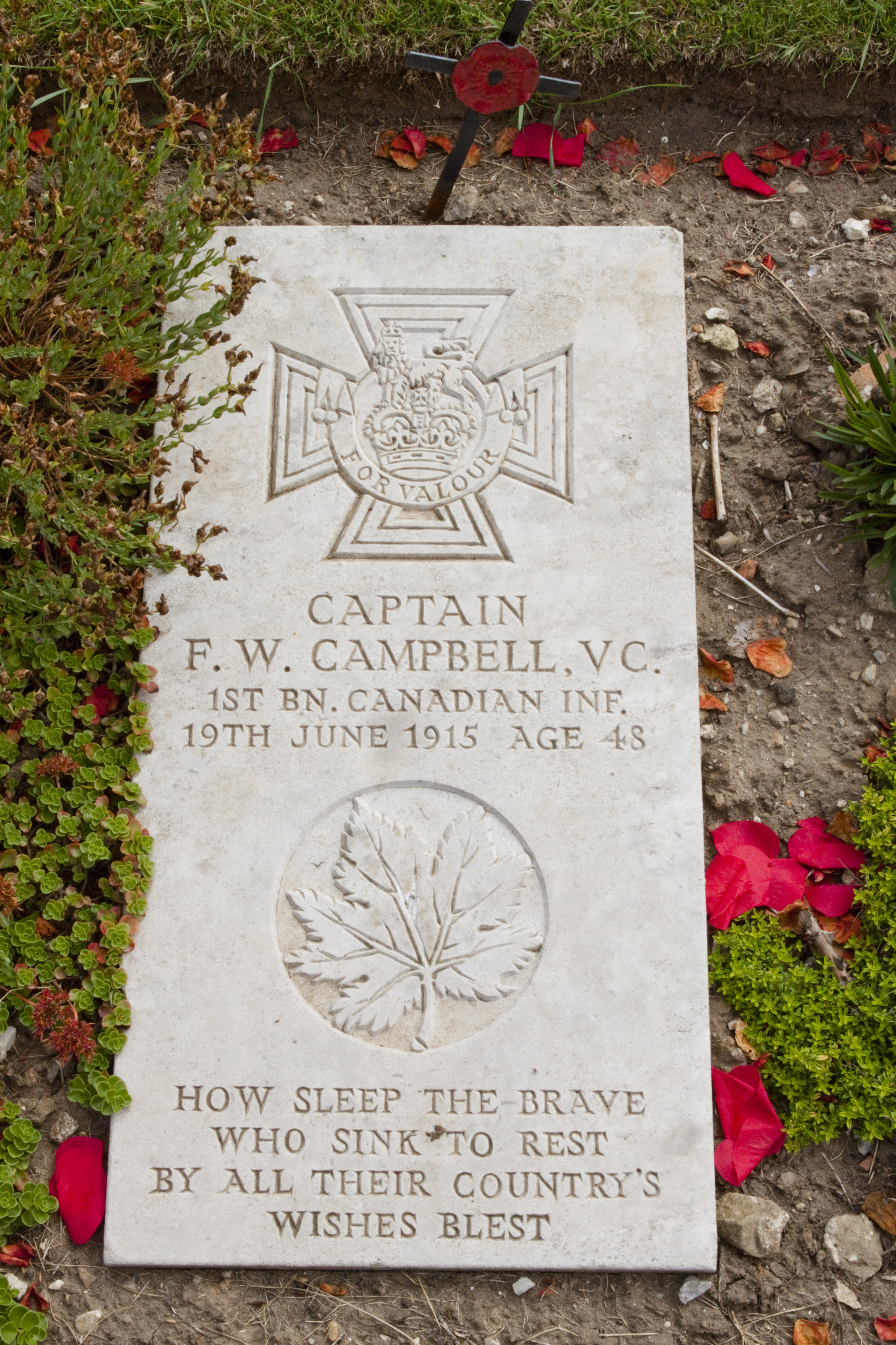 Boulogne Eastern Cemetery. Frederick William Campbell VC